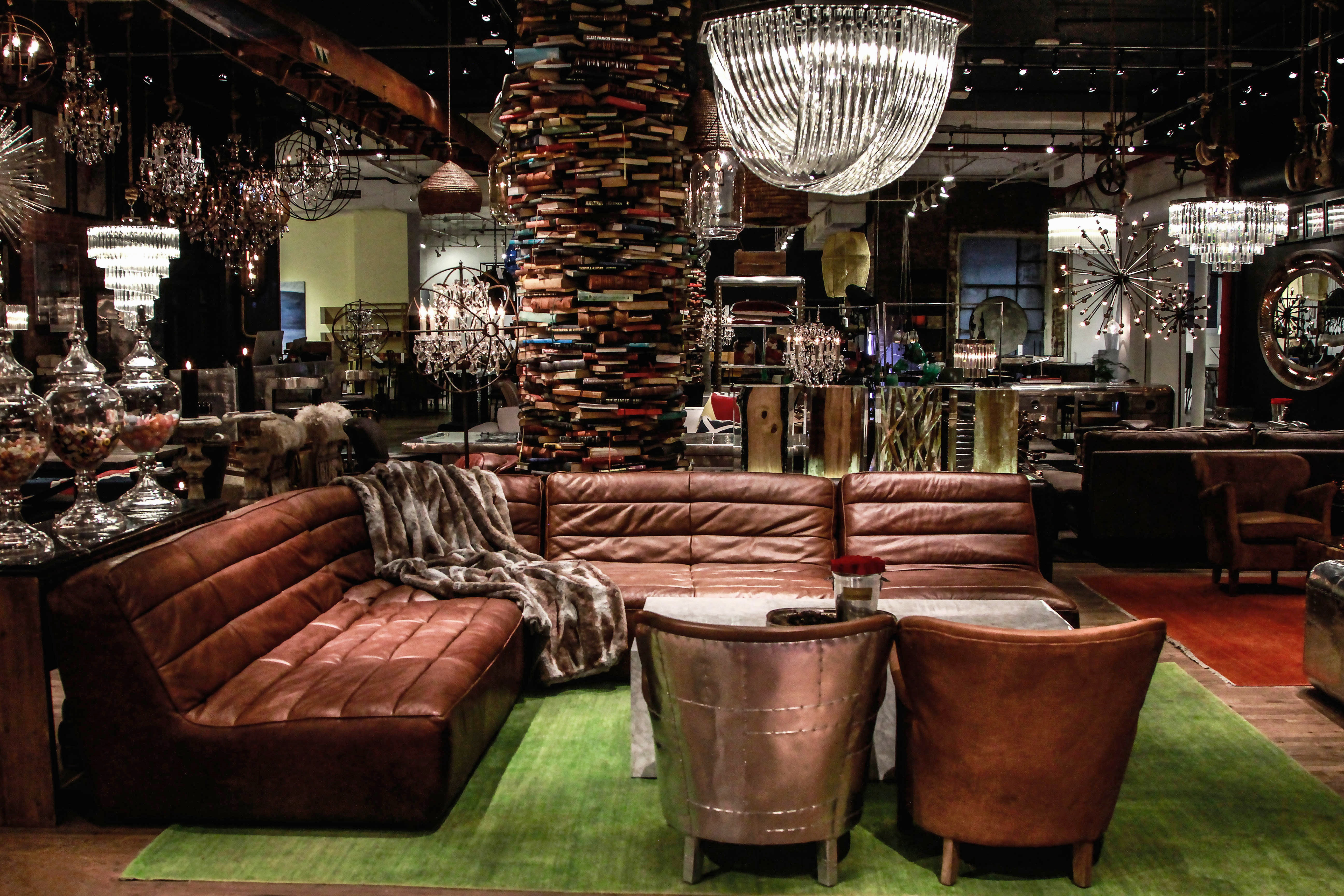 Timothy Oulton, furniture & home decor